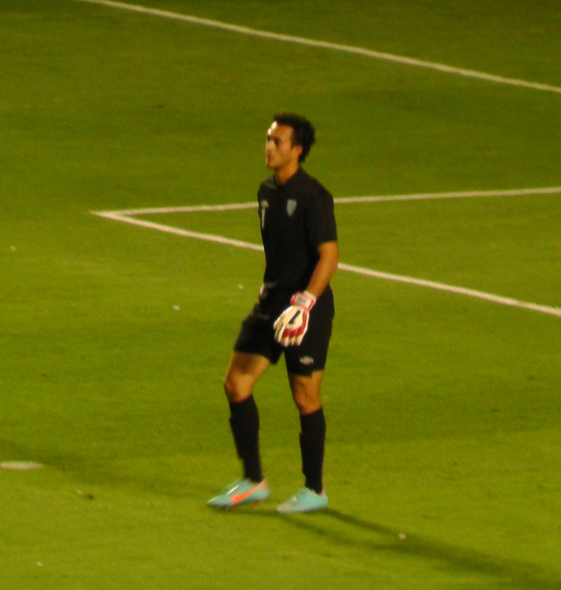 Ricardo Jerez Figueroa, Guatemalan footballer